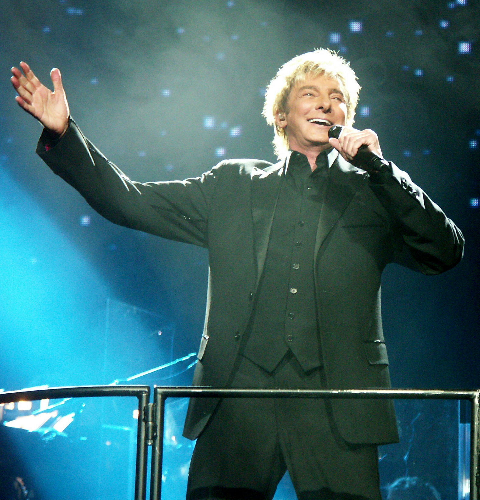 Barry Manilow live at the Xcel Energy Center in St. Paul, MN.